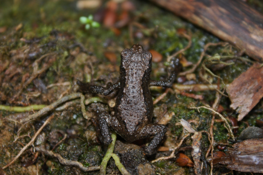 I'd heard these calling a lot as we climbed up through the beautiful cloud forest zone towards Mt. Kinabalu basecamp, but they always appeared to be just out of safe reach. I was so thrilled when I actually managed to find this little chap, he was tiny, quite a dull brown and slow moving, my guide thought I was nuts.... This was taken at about 2500m.